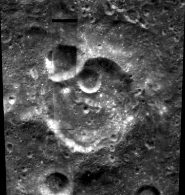 Kozyrev lunar crater - Clementine image